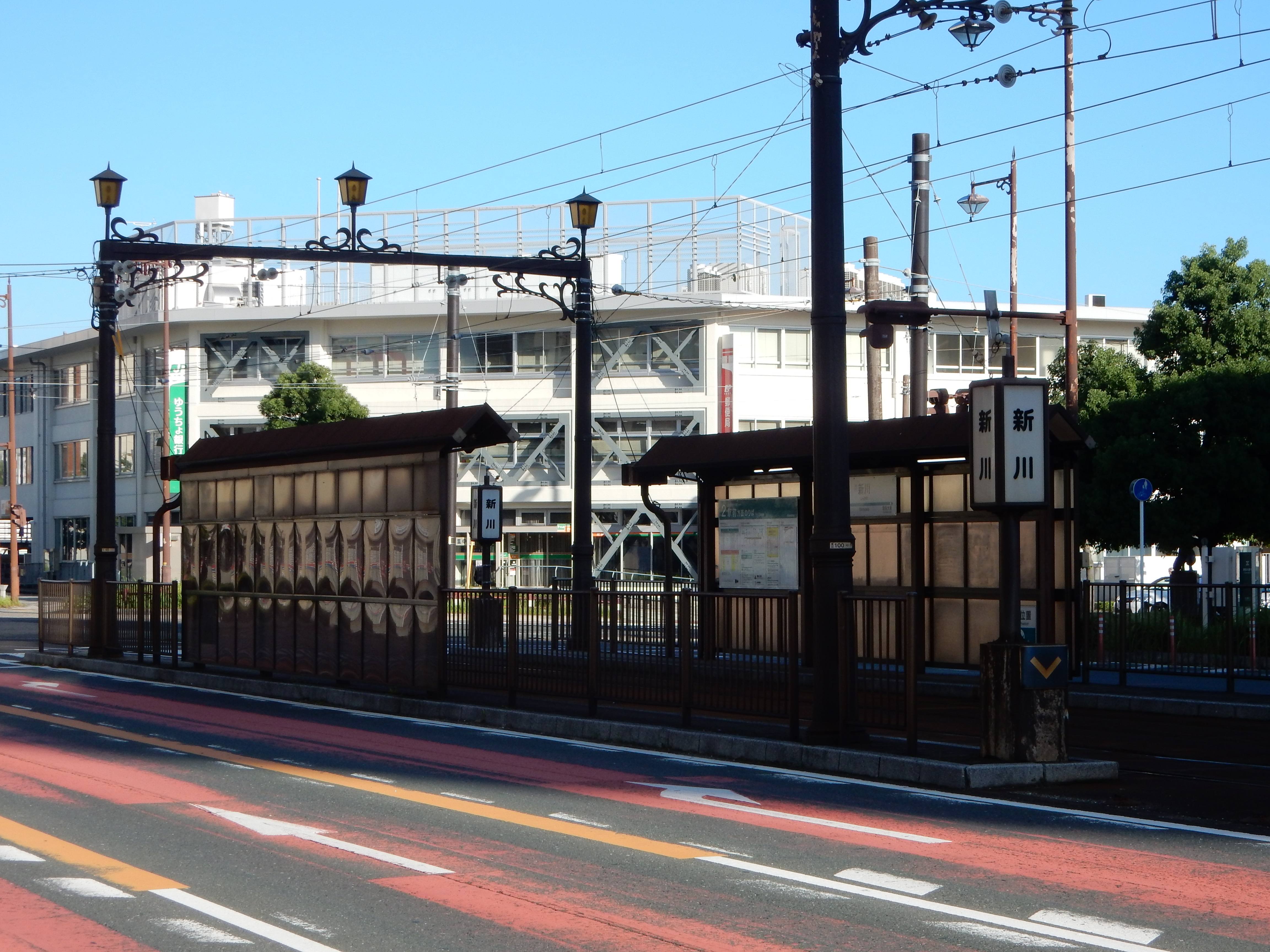 Shinkawa Tram Stop (新川停留場 Shinkawa Tēryūjō), located at 3-chome Ekimae-Odori, Toyohashi, Aichi, Japan